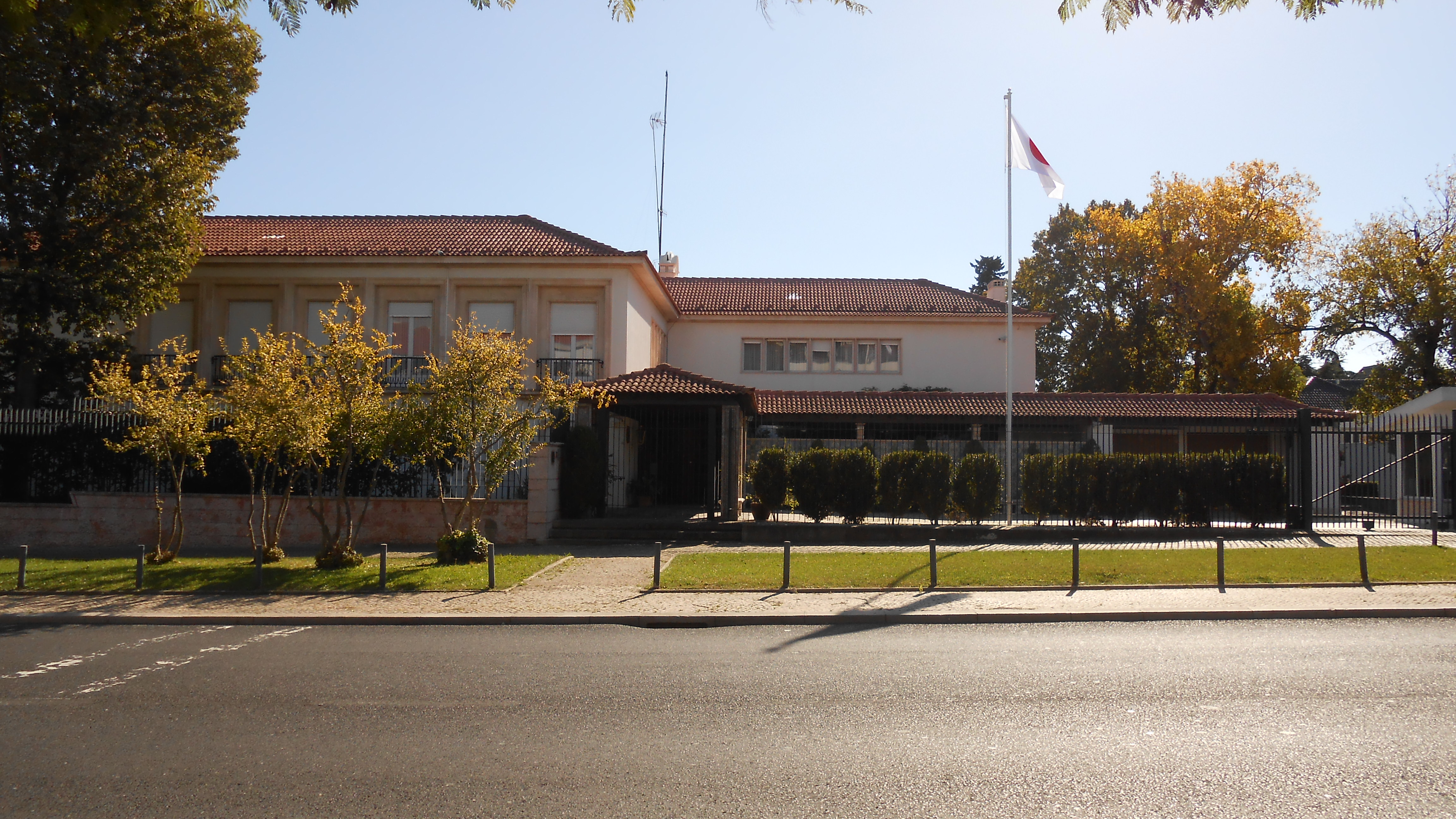 Residence of the japanese ambassador in Belém, a neighbourhood in Lisbon.